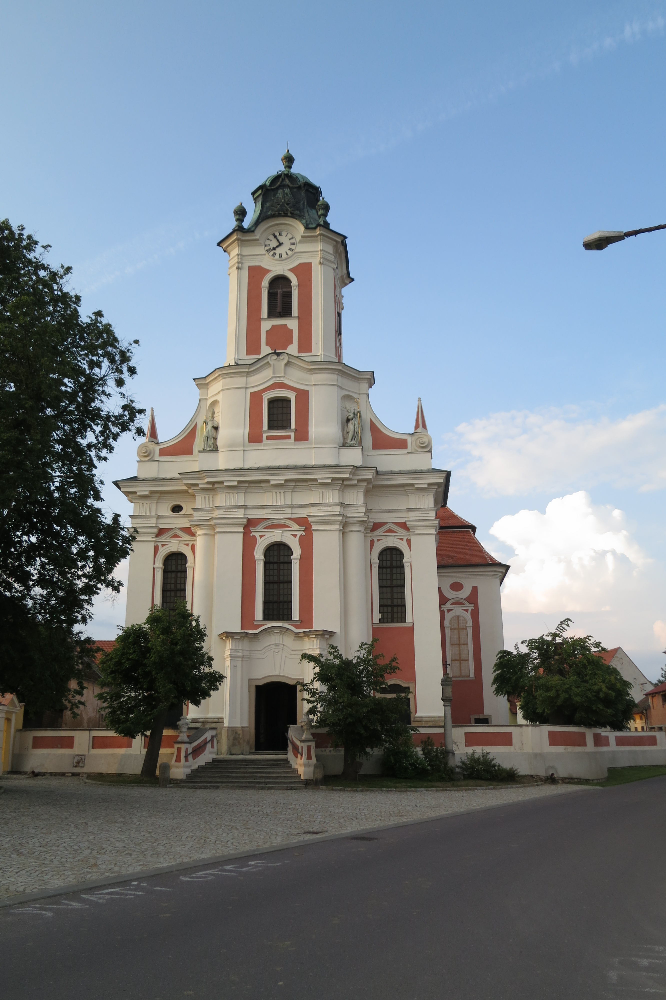 Church of Saint Leonard in Kdousov, Třebíč District.